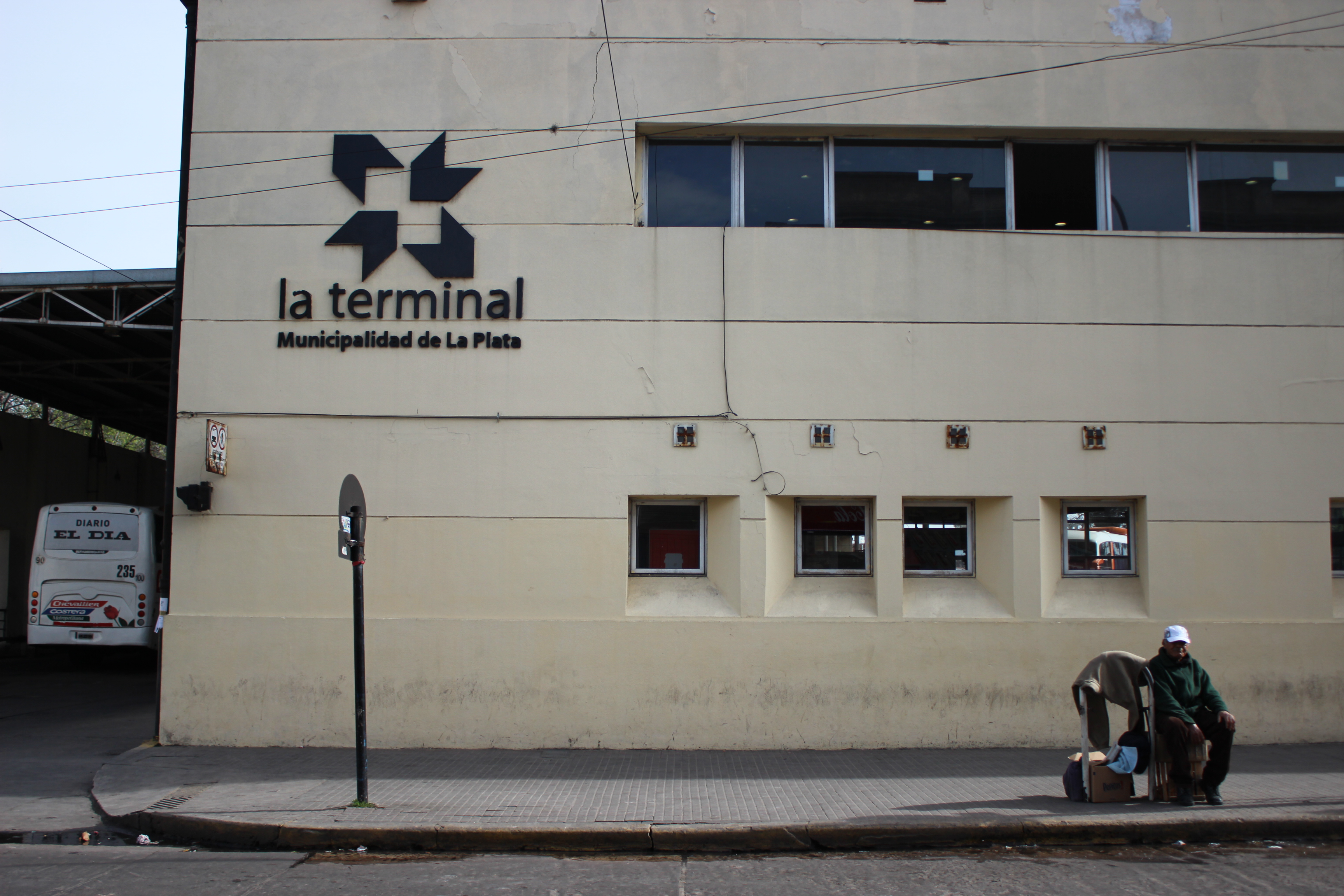 Entrance of La Plata's Bus Terminal facing 42 Street.